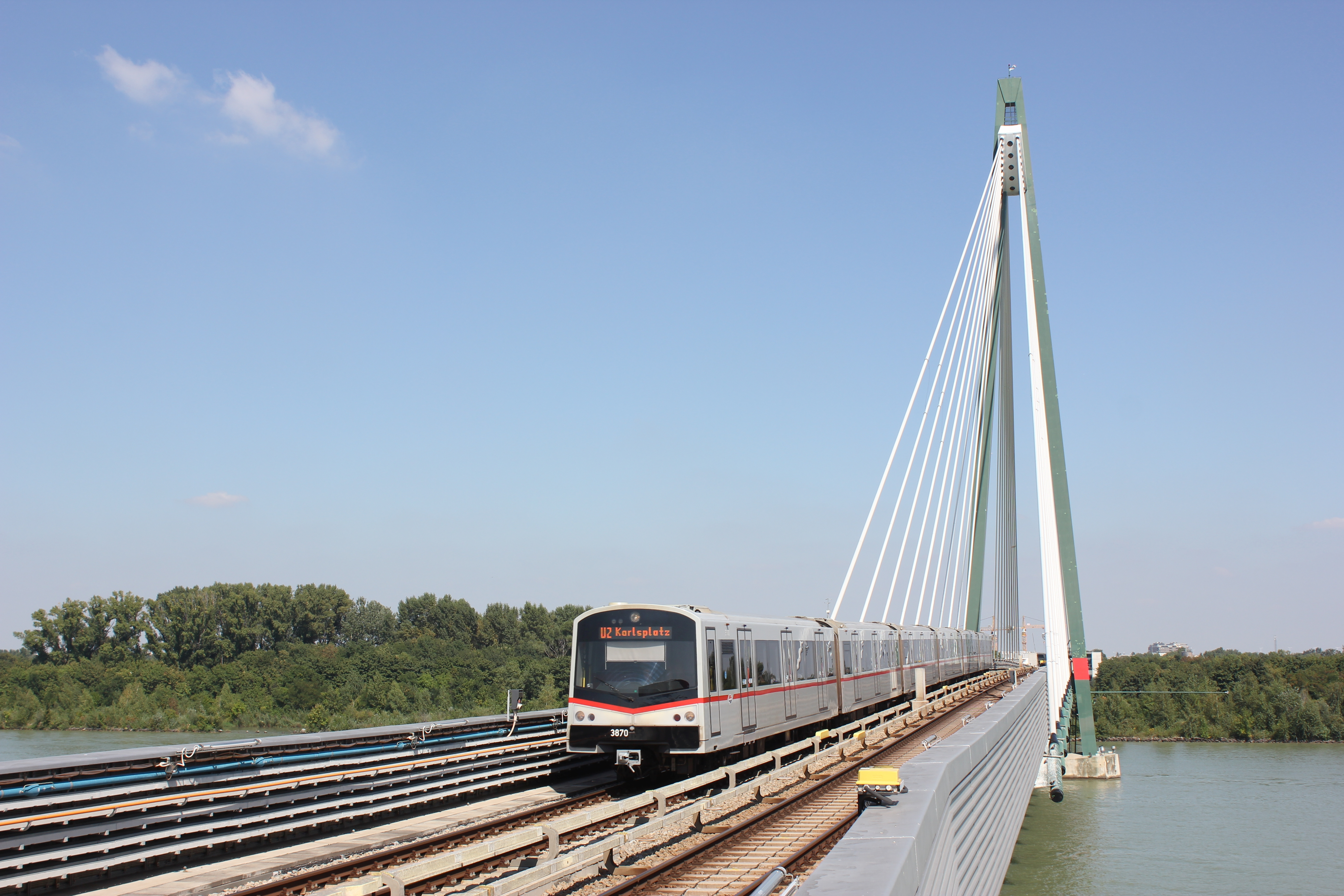 Vienna - Donaustadt Bridge, metro train #3870 on line U2 towards Karlsplatz